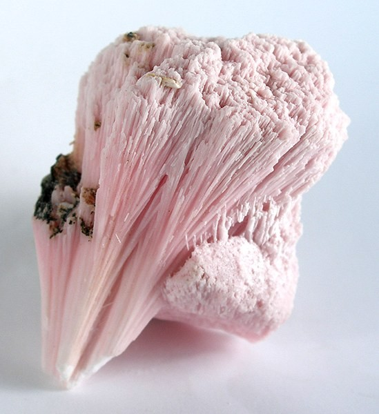 Kutnohorite Locality: Wessels Mine (Wessel's Mine), Hotazel, Kalahari manganese fields, Northern Cape Province, South Africa (Locality at ) Size: 4.7 x 3.4 x 3.0 cm. A beautiful cluster of the rare manganese-rich carbonate kutnohorite, from this classic locality for the species which mostly produced it in the 1980s. Ex. Charlie Key.